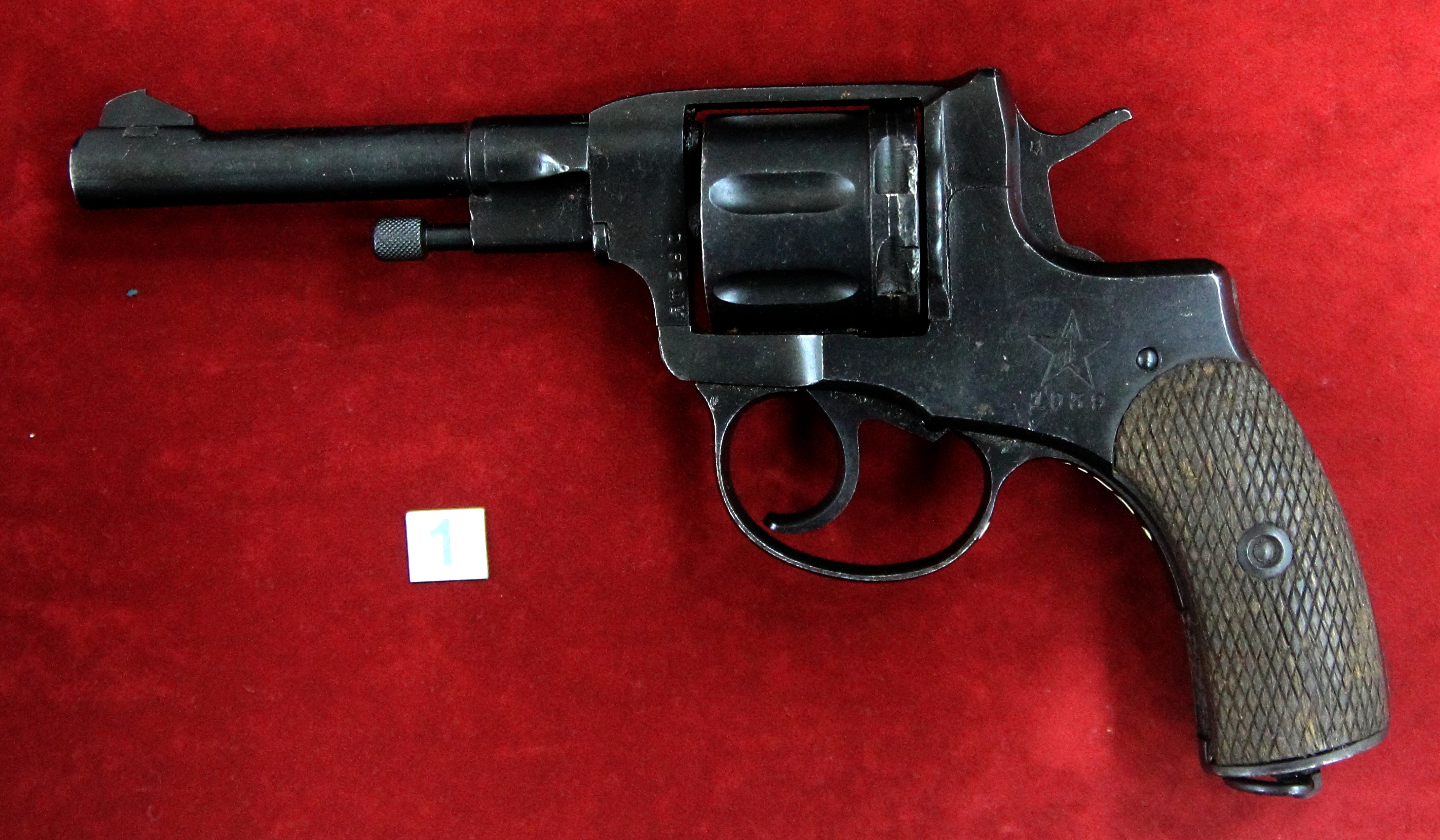 Soviet Nagant